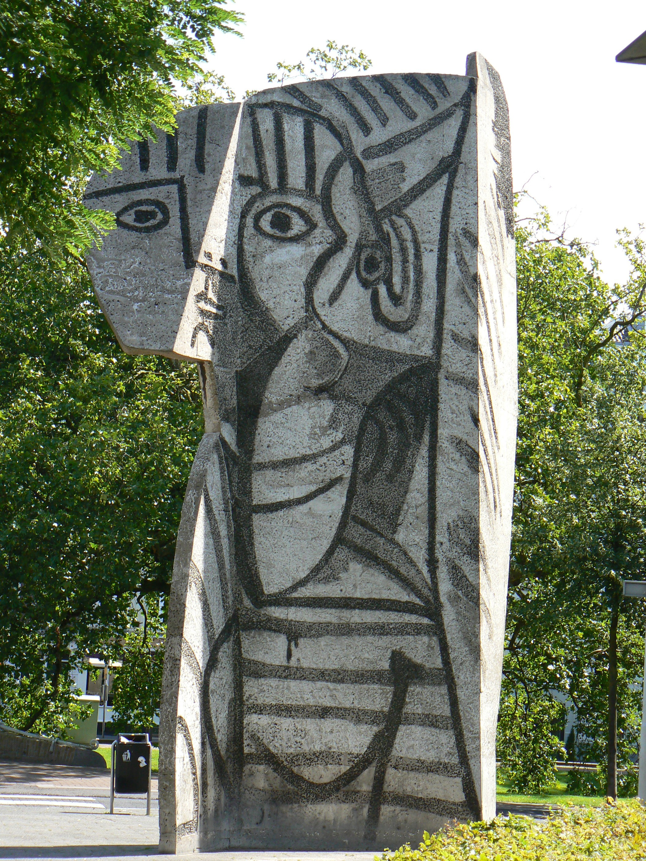 sculpture "Sylvette"by Pablo Picasso in Rotterdam/The Netherlands (FOP).